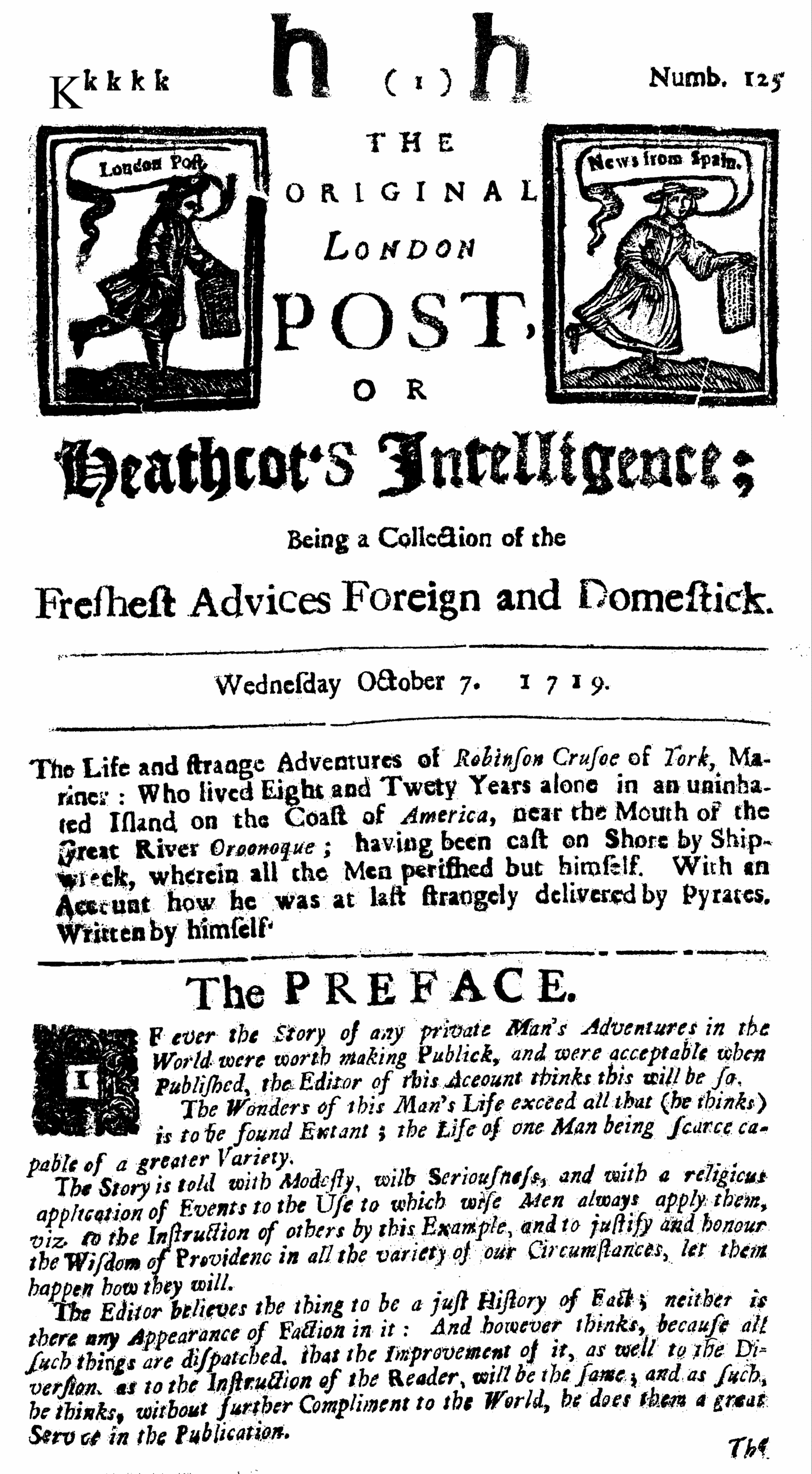 Daniel Defoe's Robinson Crusoe, published in Heathcot's Intelligence, 1719, first issue.